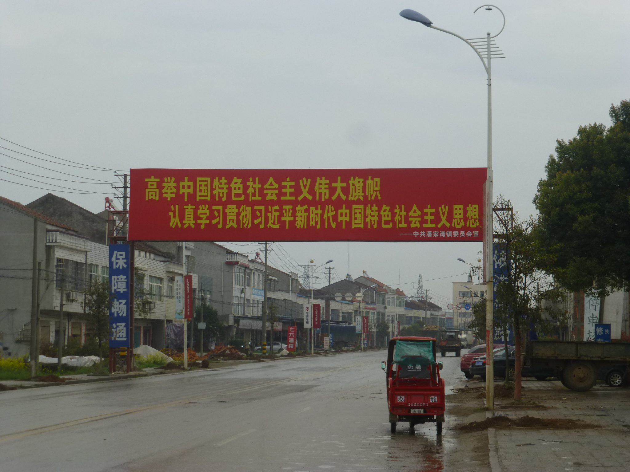 On Hubei Provincial Hwy S102 around Fanhu and Siyi Villages, in Panjiawan Town, Jiayu County.